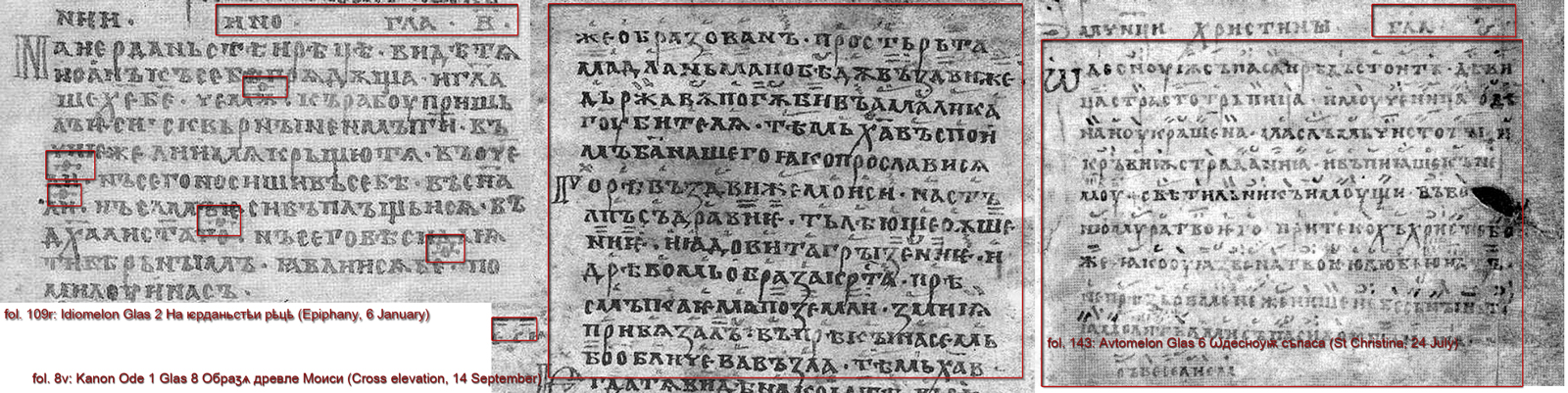 Old Church Slavonic Oktoich (liturgical Miney including movable cycle of feasts) of the Kievan Rus' with later added theta and znamennaya notation (Moscow, Russian State Archive of Ancient Acts, ргада fond 381 No 131)